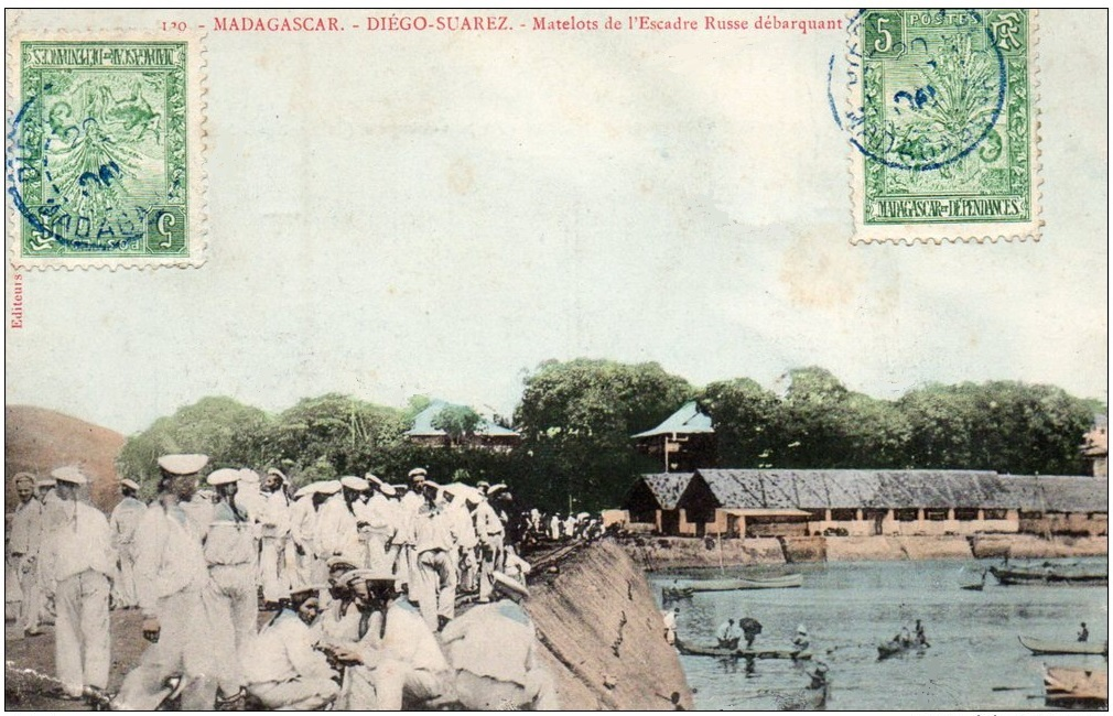 December 1904: Russian sailors from the Baltic Fleet going ashore on the island of Nossi-Bé, then a minor French naval station off northwestern Madagascar. After a stopover lasting several weeks, the fleet proceeded to the Far East. Contemporary postcard.